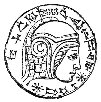 An engraving on an eye stone of onyx[citation needed] with an inscription of Nebuchadnezzar II.